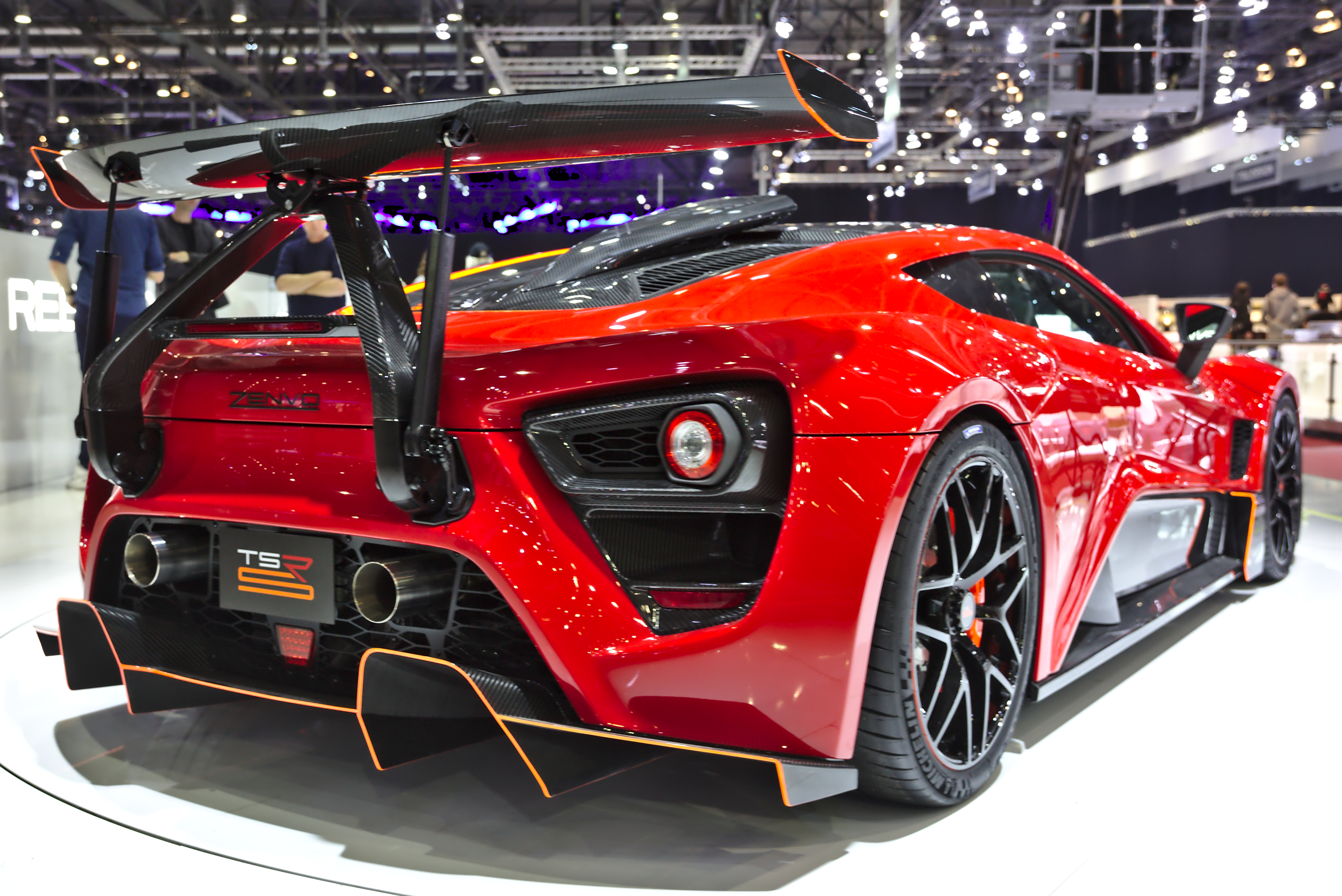 Zenvo TSR-S at Geneva Motor Show 2018